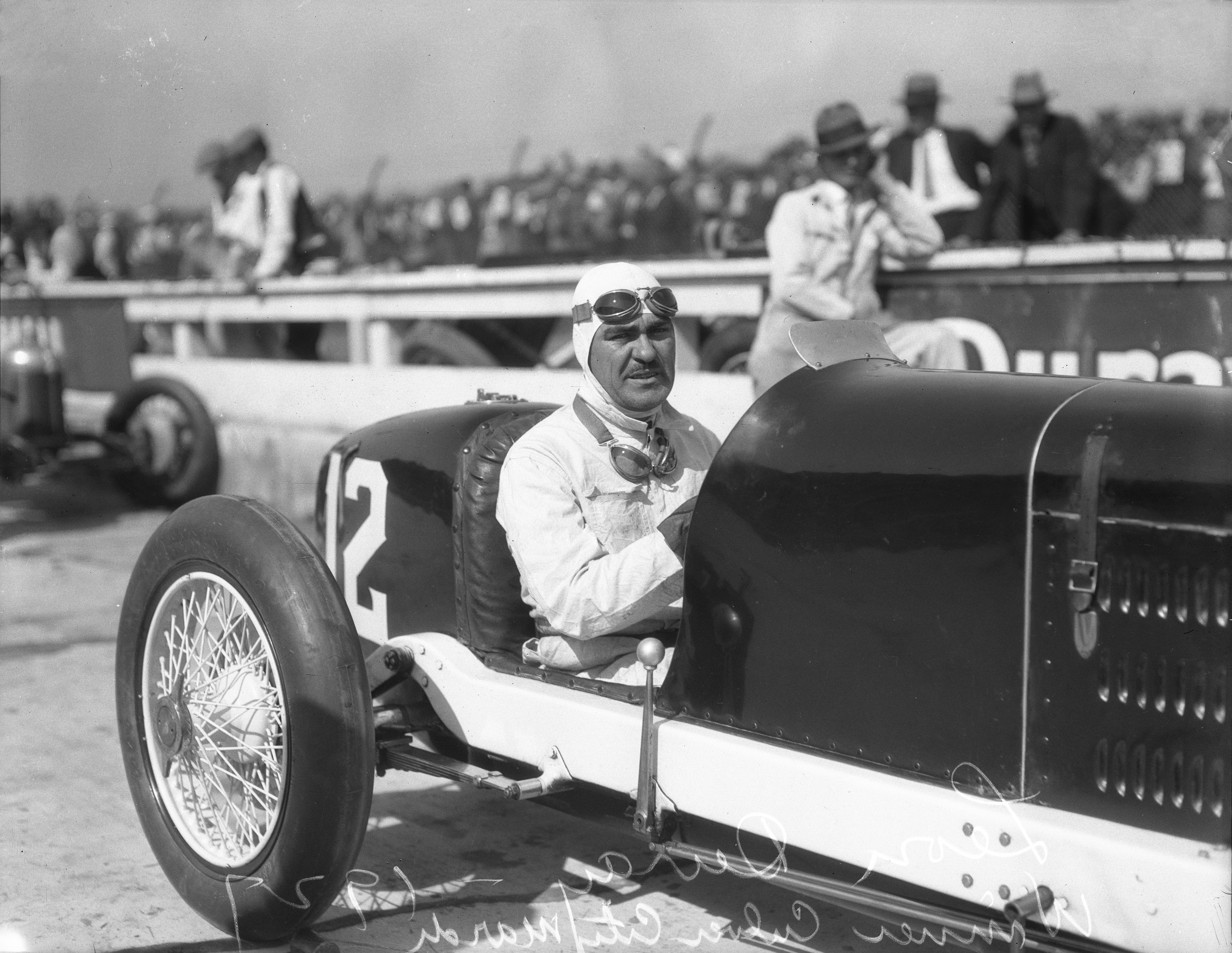 Title: Race car driver Leon Duray seated in number 12 car in Culver City, Calif., 1927. Race car is one of the two Packard Cable Specials, i.e. Miller 91 front wheel drive cars. Publication:Los Angeles Times Publication date:1927 Source:Los Angeles Times photographic archive, UCLA Library Licensing Note about non-renewal of copyright: [1]